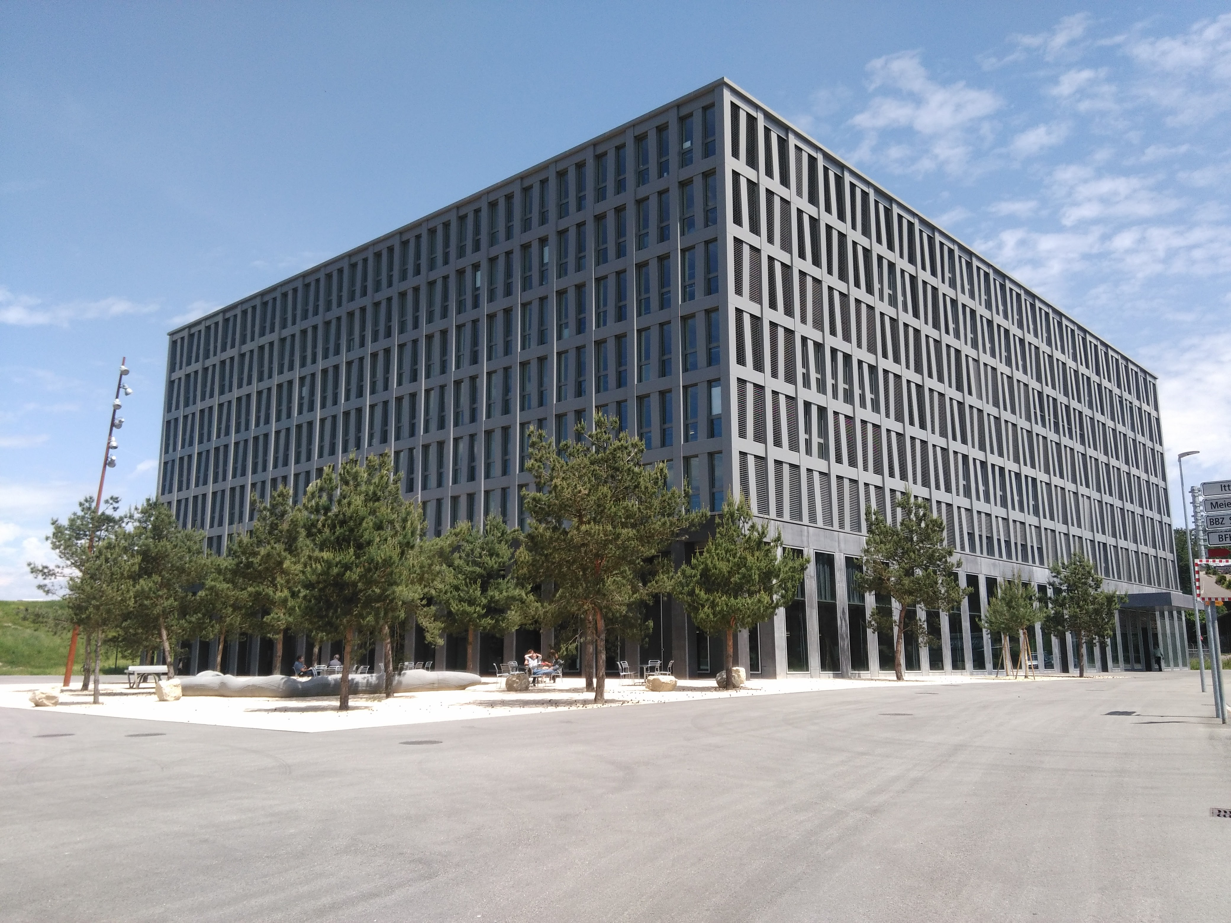 Building of the BIT (Bundesamt für Informatik und Telekommunikation) in Zollikofen.